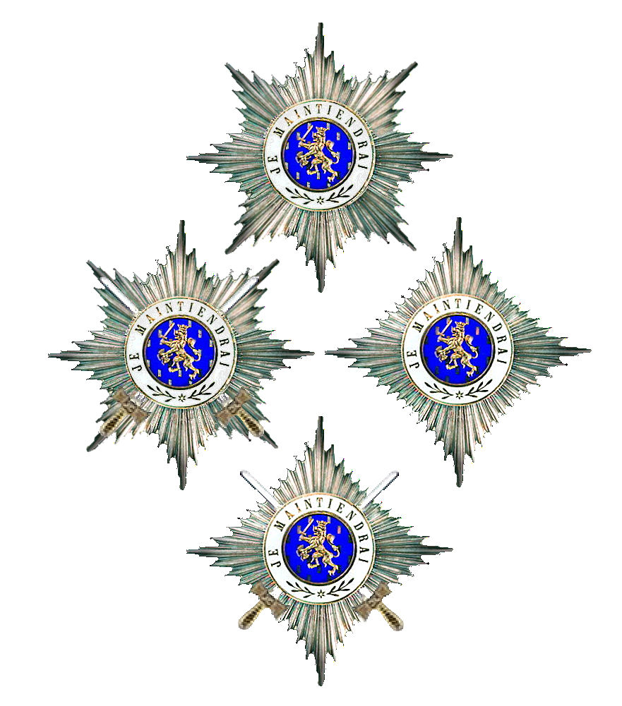 Two stars and two paques of the Order of Orange Nassau (tThe Netherlands )